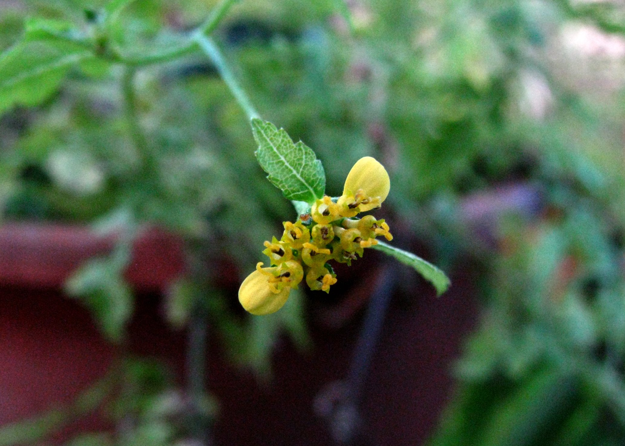 Melanthera micrantha micrantha Nehe Asteraceae Endemic to the Hawaiian Islands (Kauaʻi only) Endangered Oʻahu (Cultivated) Growing from a hanging basket.